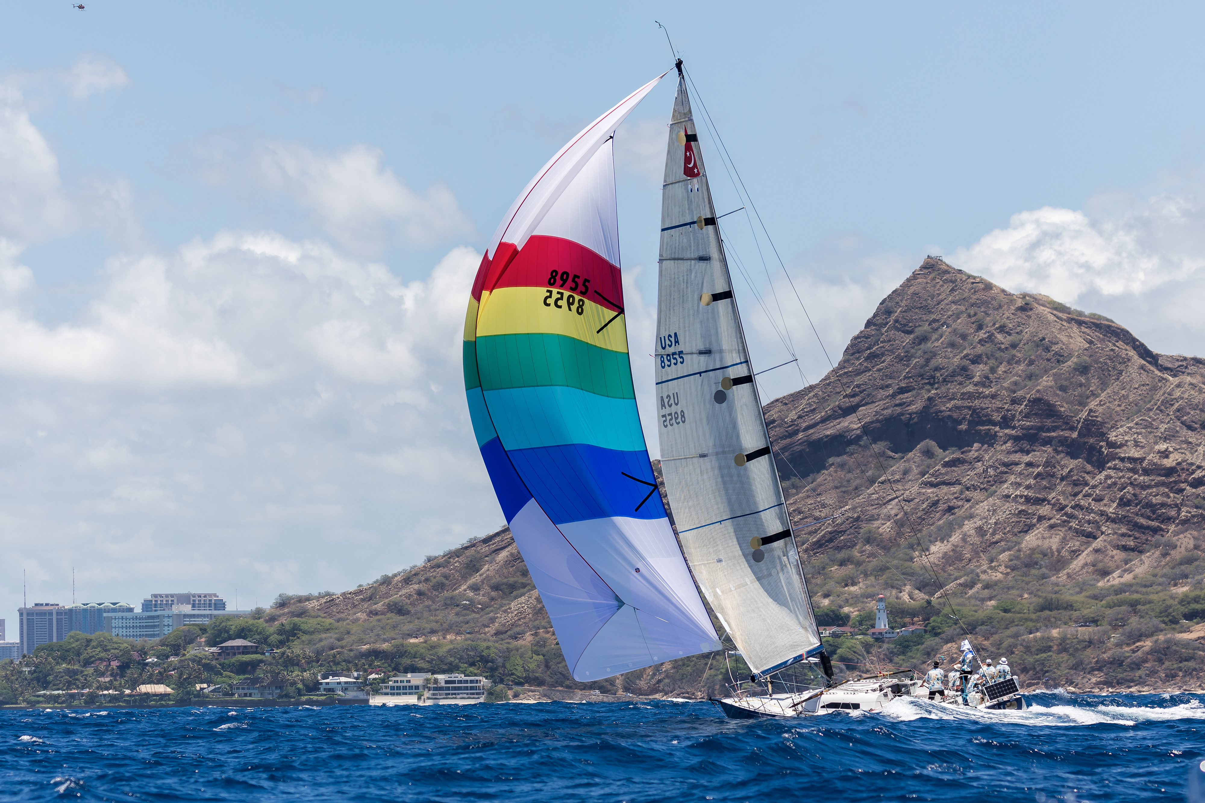 Yacht "Merlin" approaching Diamond Head during the 2017 TRANSPAC yacht race